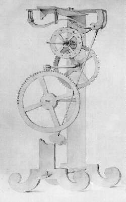 Drawing of pendulum clock designed by Galileo Galilei around 1641. Part of the front supporting plate is removed by the artist to show the wheelwork. Although the source says the drawing is 'by' Galileo, it is undoubtedly the one drawn by his student Vincenzo Viviani in 1659, since Galileo was blind by the time he had the idea. Probably the first design for a pendulum clock, it was partly constructed by Galileo's son, who died before he could finish it. For more information see Al Van Helden (1995), Pendulum Clock, The Galileo Project. Alterations to image: none.